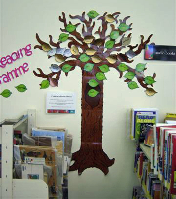 Raakau Reading Tree, Birkenhead Public Library.